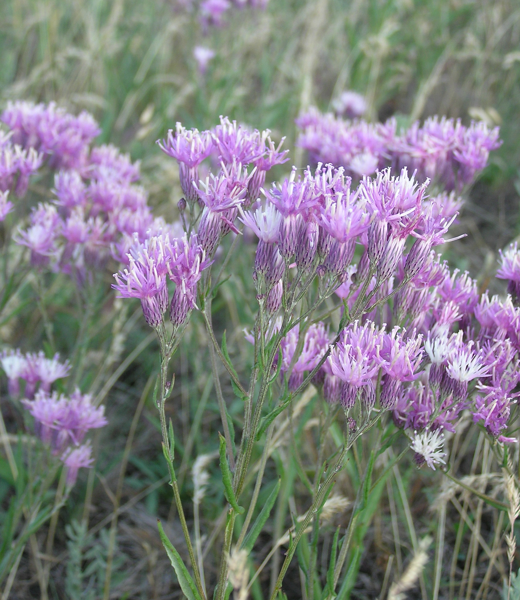 Jurinea multiflora (L.) B. Fedtsch. Habitat: saline steppe. Vicinity of Saratov city, Russia.